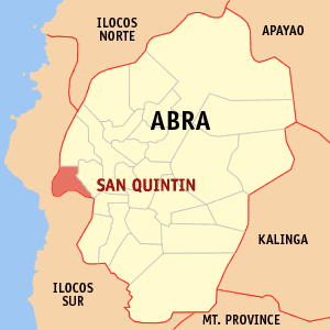 Map of Abra showing the location of San Quintin